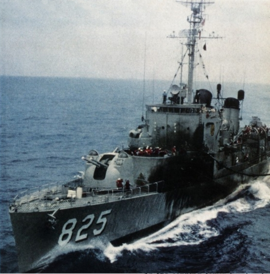 The U.S. Navy destroyer USS Carpenter (DDE-825) refueling from the aircraft carrier USS Hornet (CVS-12), in 1962. Hornet, with assigned Carrier Anti-Submarine Air Group 57 (CVSG-57), was deployed to the Western Pacific from 6 June to 21 December 1962. Note the large amount of fuel oil spilled on Carpenter´s decks. Carpenter carries the seldom used 3"/70 (76 mm) Mark 37 gun forward.